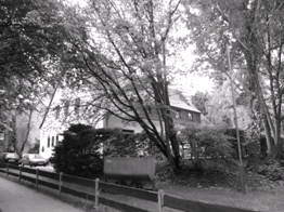 Vereinshaus des AV Agricola Aachen